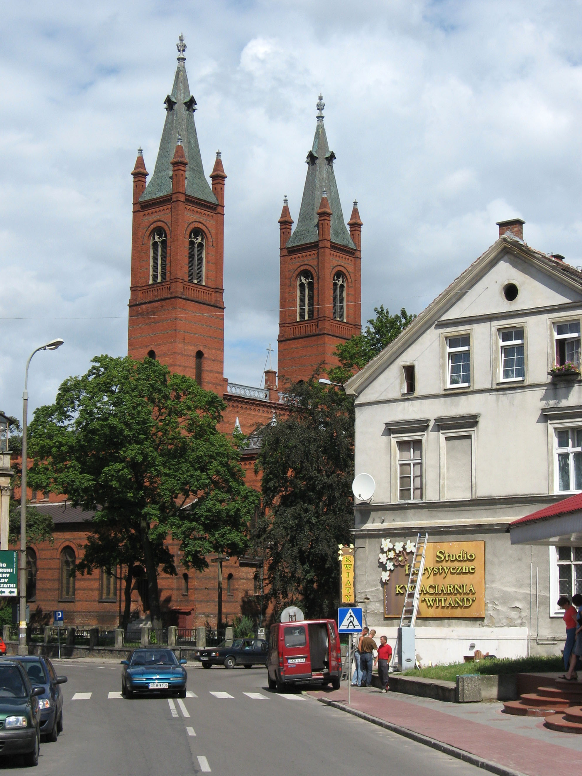 Kwidzyn, church of the Holy Trinity, view from Grudziądzka Str.